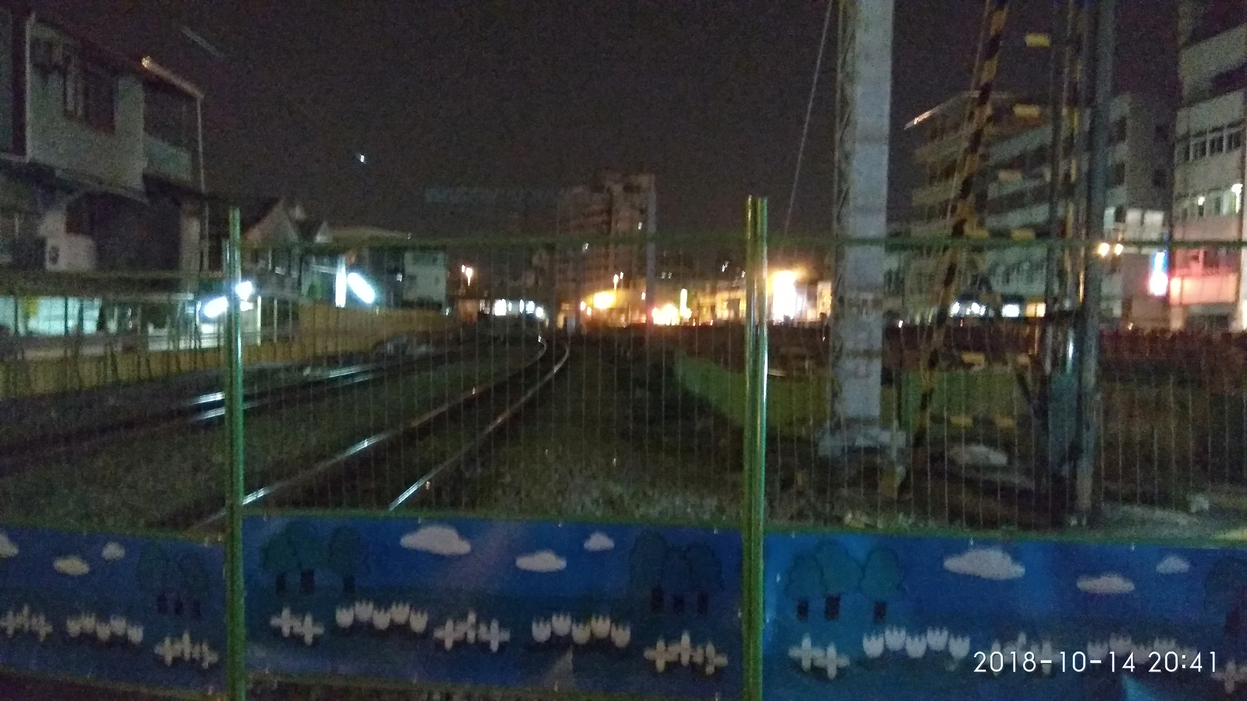 Scene of the level crossing at Fongsong road after trains switched over to running underground